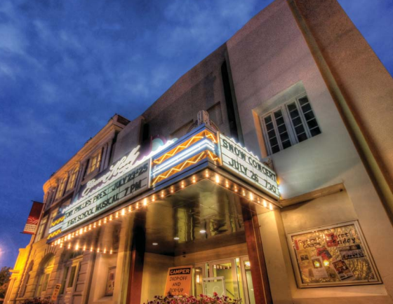 The Emma Kelly Theater is a part of the Averitt Center for the Arts and hosts numerous concerts, plays, and special events throughout the year.